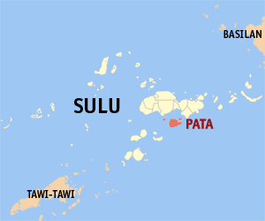 Map of the Sulu showing the location of Pata